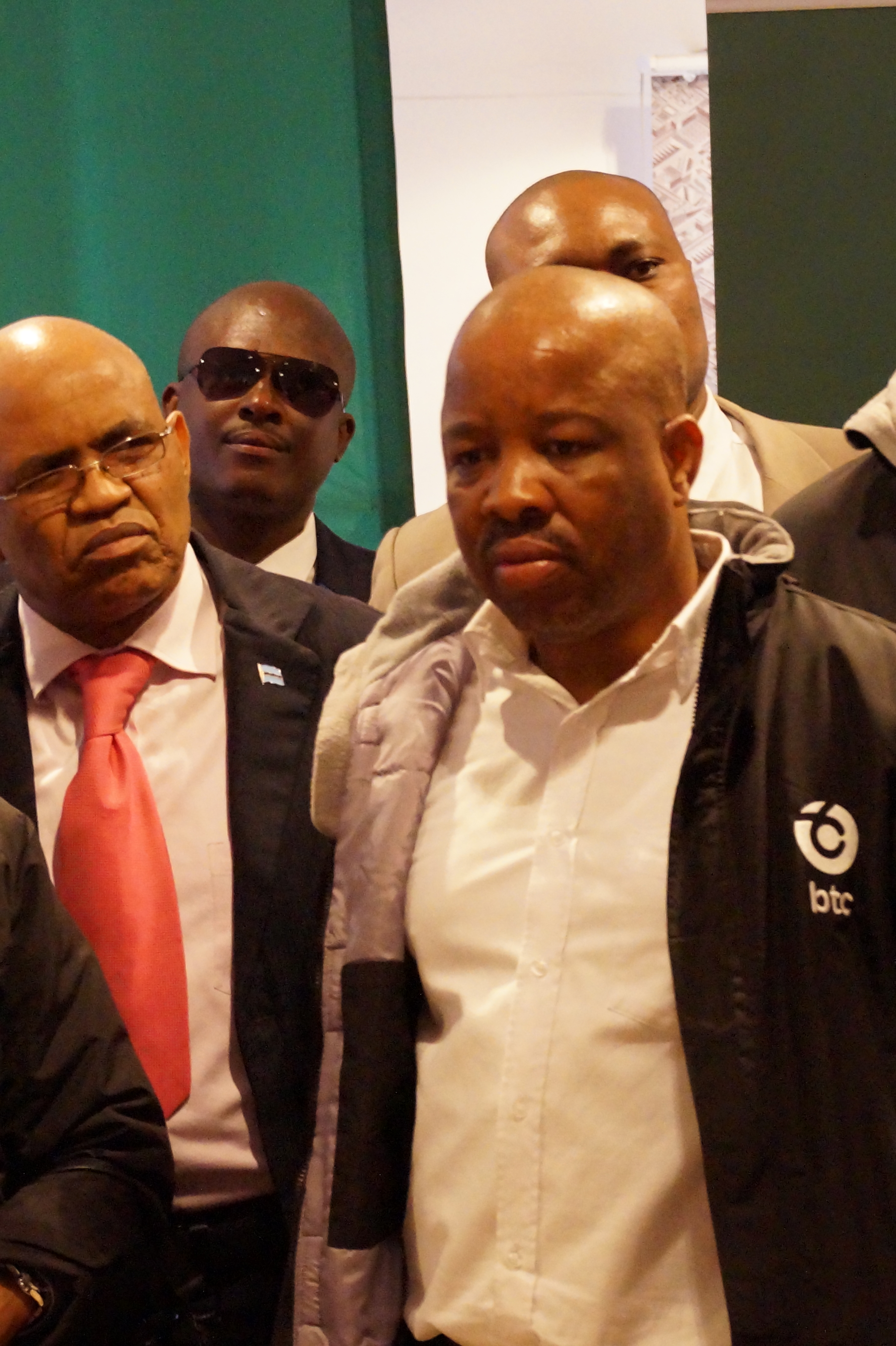 Anthony Masunga, officially opening the Masunga skills room donated by BTC, at the world telecommunications and information society day 2017